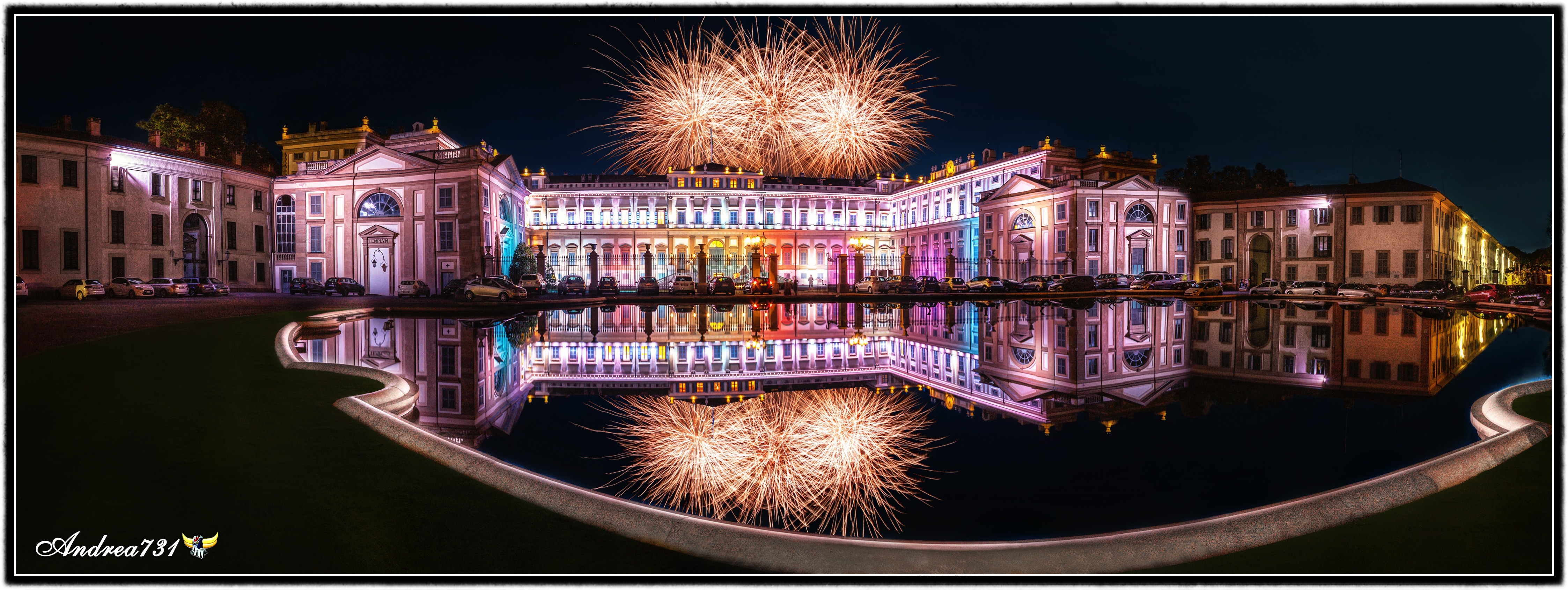 This is a photo of a monument which is part of cultural heritage of Italy.